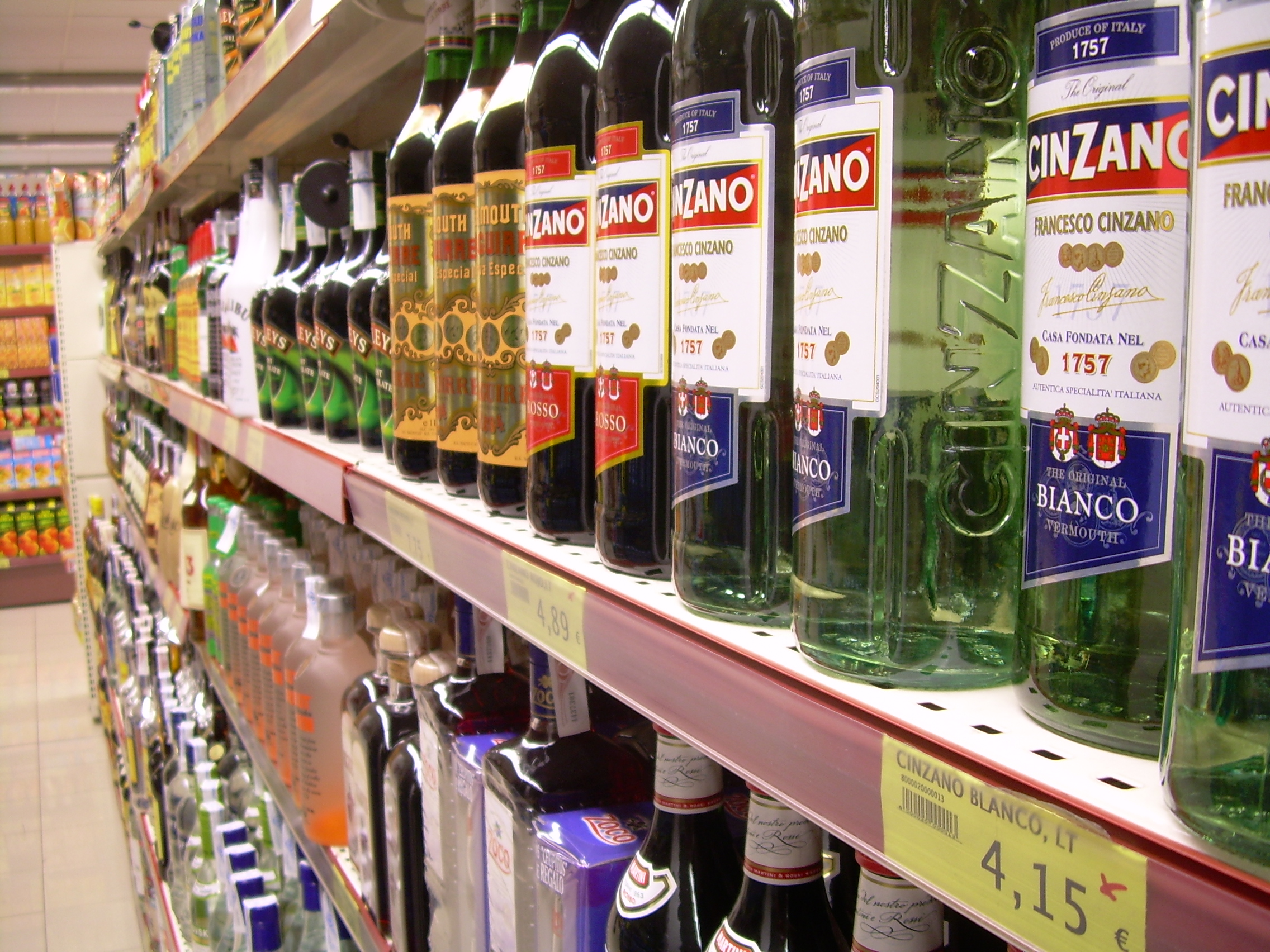 Cinzano in super market